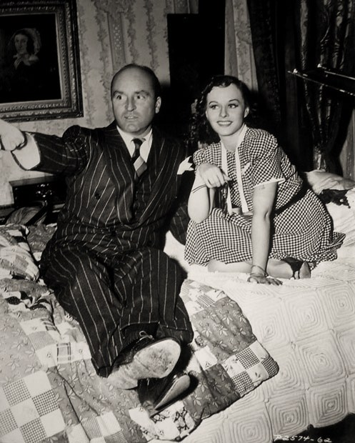 Producer Arthur Hornblow, Jr. and Paulette Goddard on the set of The Cat and the Canary (1939) - publicity still